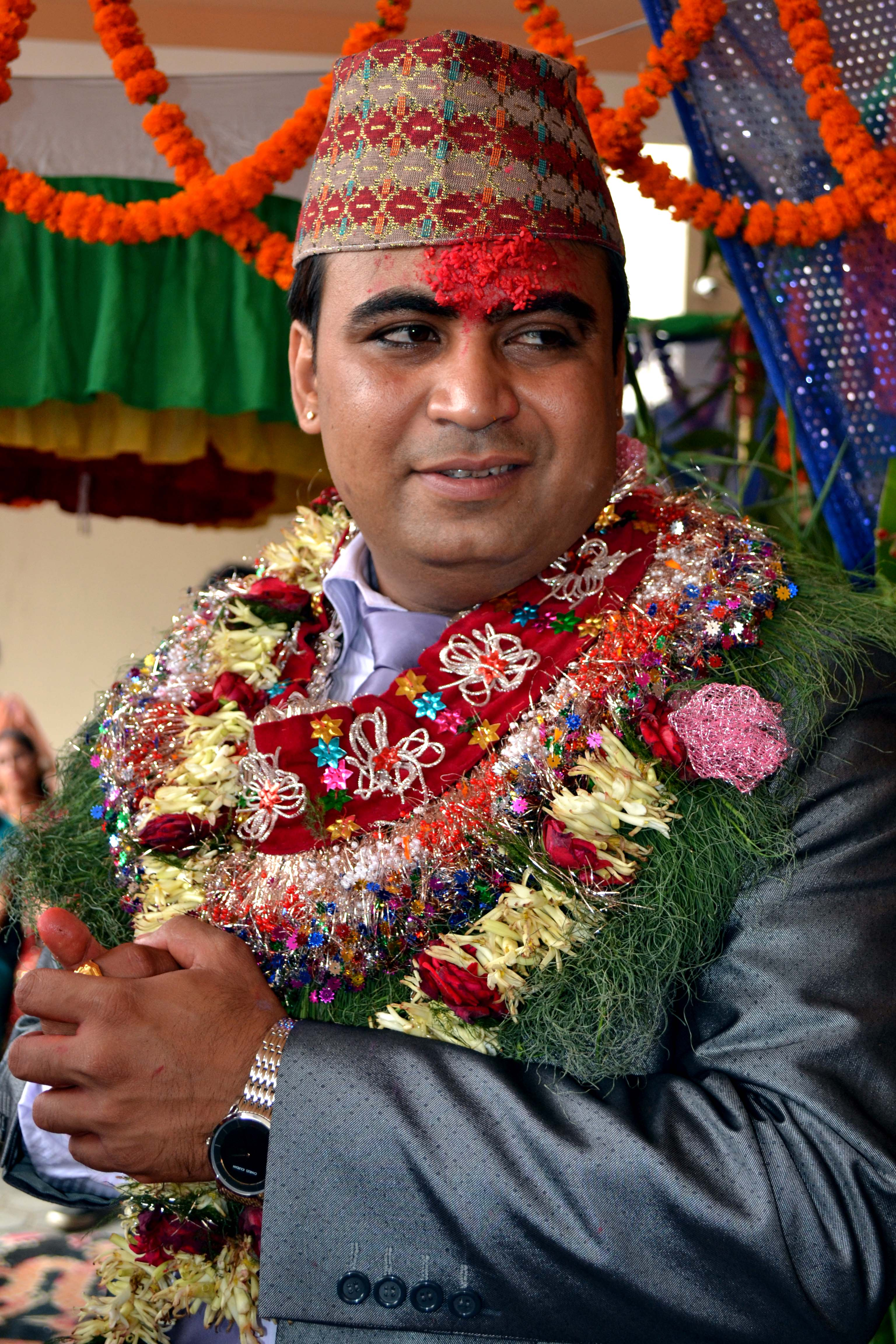 photo,s of Nepali groom .